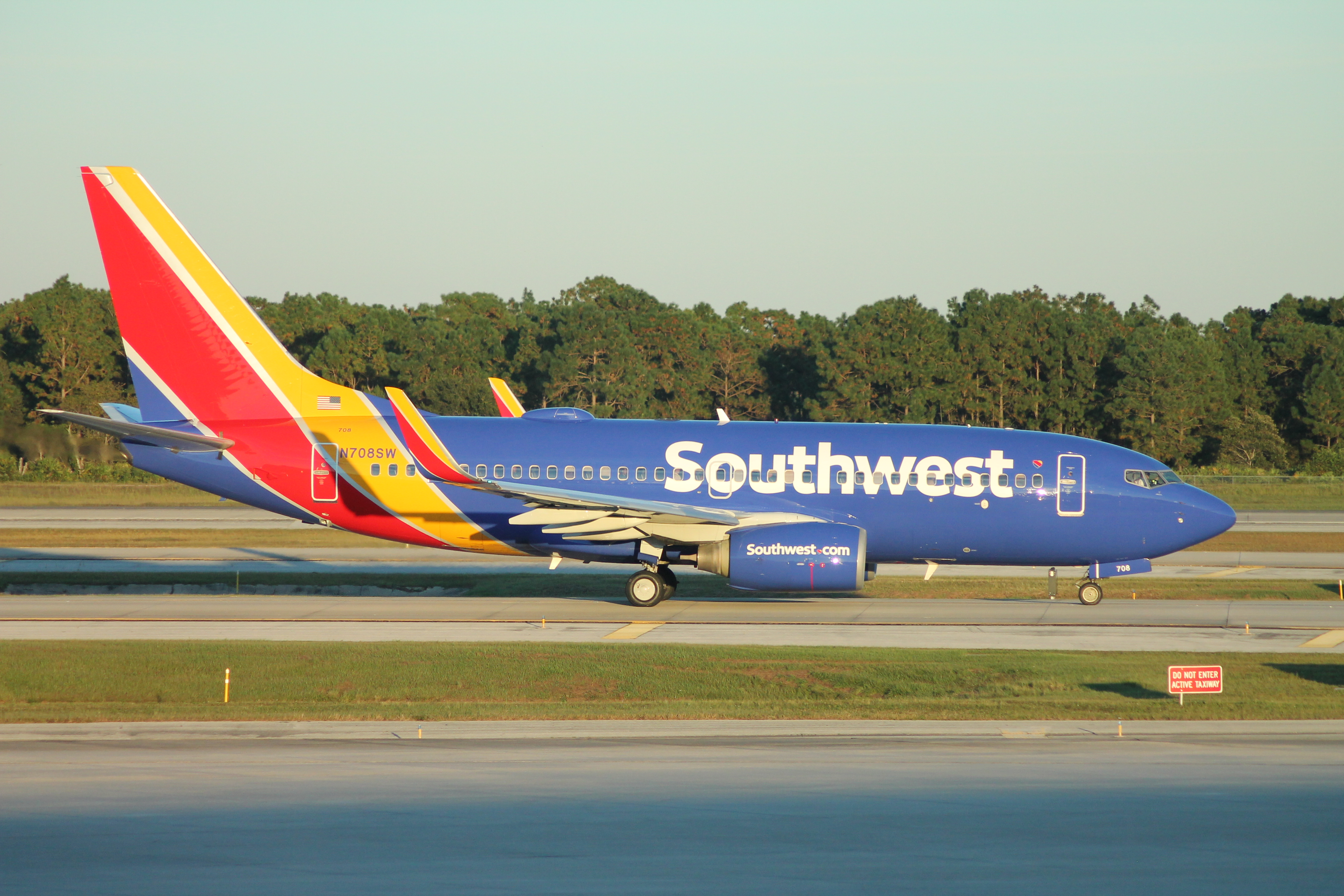 Southwest Airlines Boeing 737-700 (2014 livery)